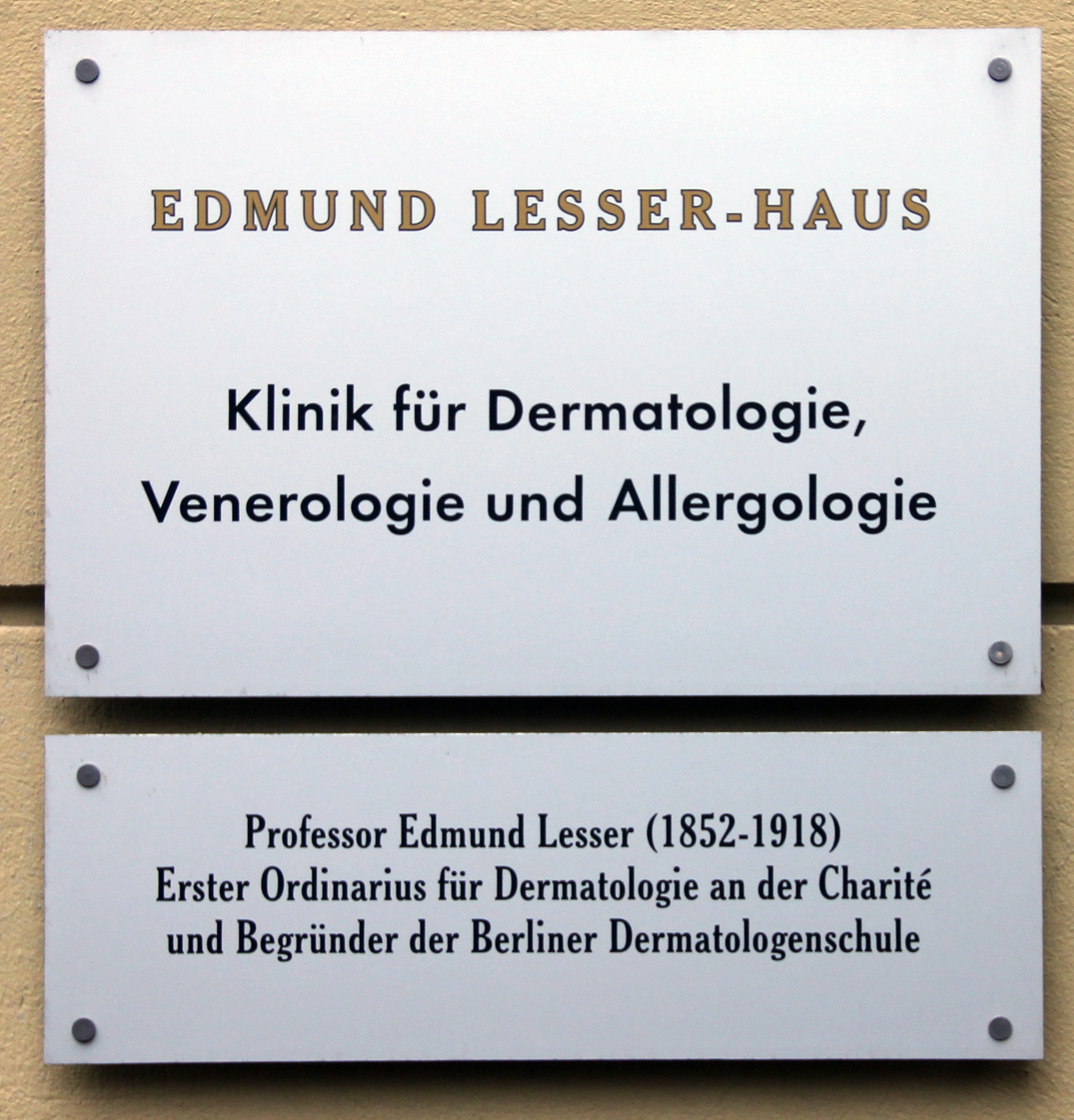 Memorial plaque, Edmund Lesser, Rahel-Hirsch-Weg, Berlin-Mitte, Deutschland